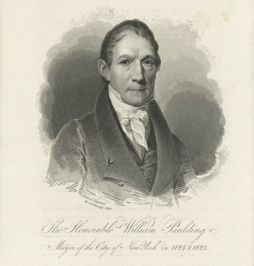 William Paulding, Mayor of New York City, 1824 to 1826